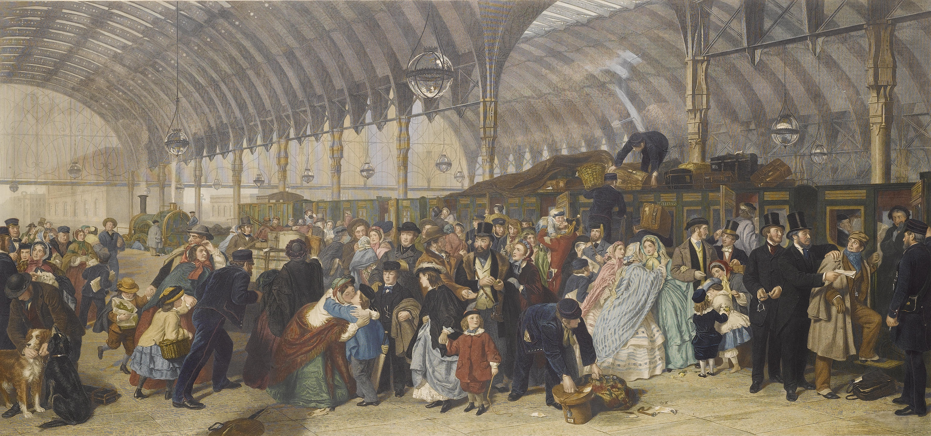 The Railway Station. Engraving by Francis Holl after William Powell Frith. Mixed media engraving on wove, finished with hand colouring. Published by Henry Graves & Co, London, 1866; 66.0 x 123.0 cm; colorized